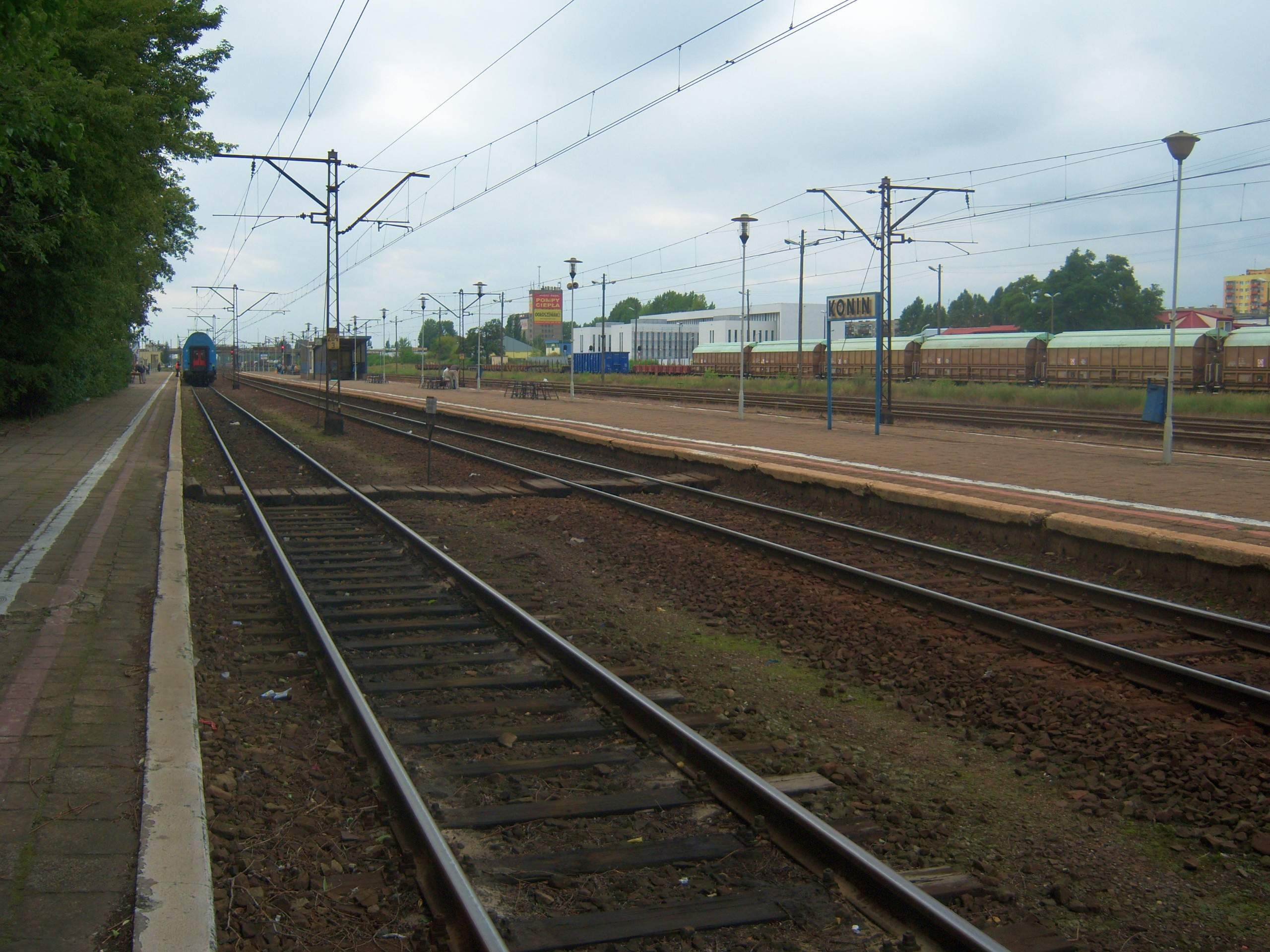 Konin train station